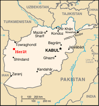 Map of Afghanistan, highlighted Herat.